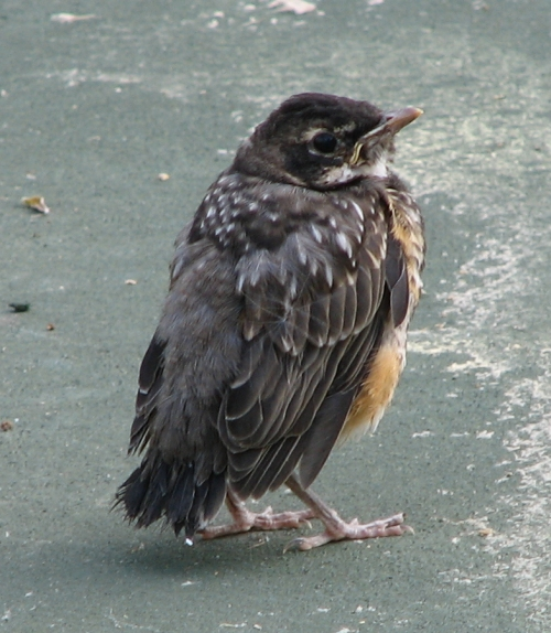 Baby Robin. Photo taken in Louisville Kentucky Author: Trisha Shears (Myself)